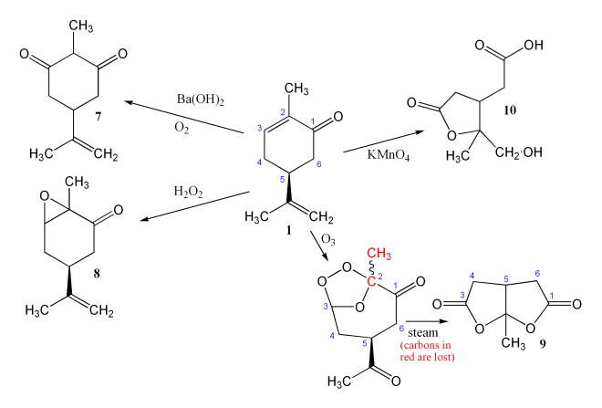 Various oxidations of carvone. Drawn in ChemDraw by User:Walkerma, December 2005.